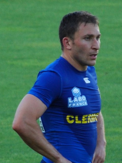 The French rugby union player Pierre Mignoni during the 2008-09 Top 14 playoff Clermont-Toulouse